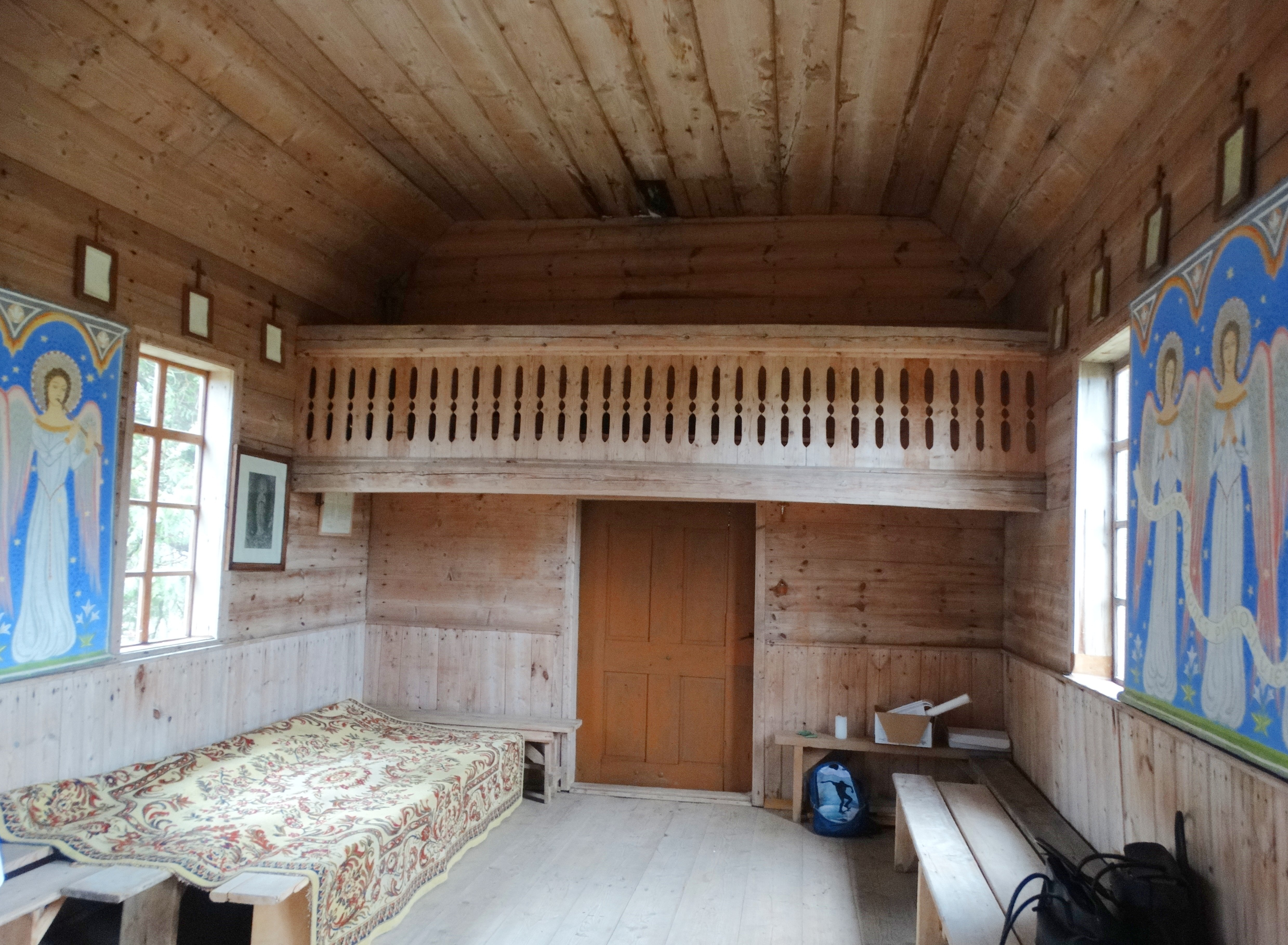 Chapel, Abakai, Kretinga District, Lithuania